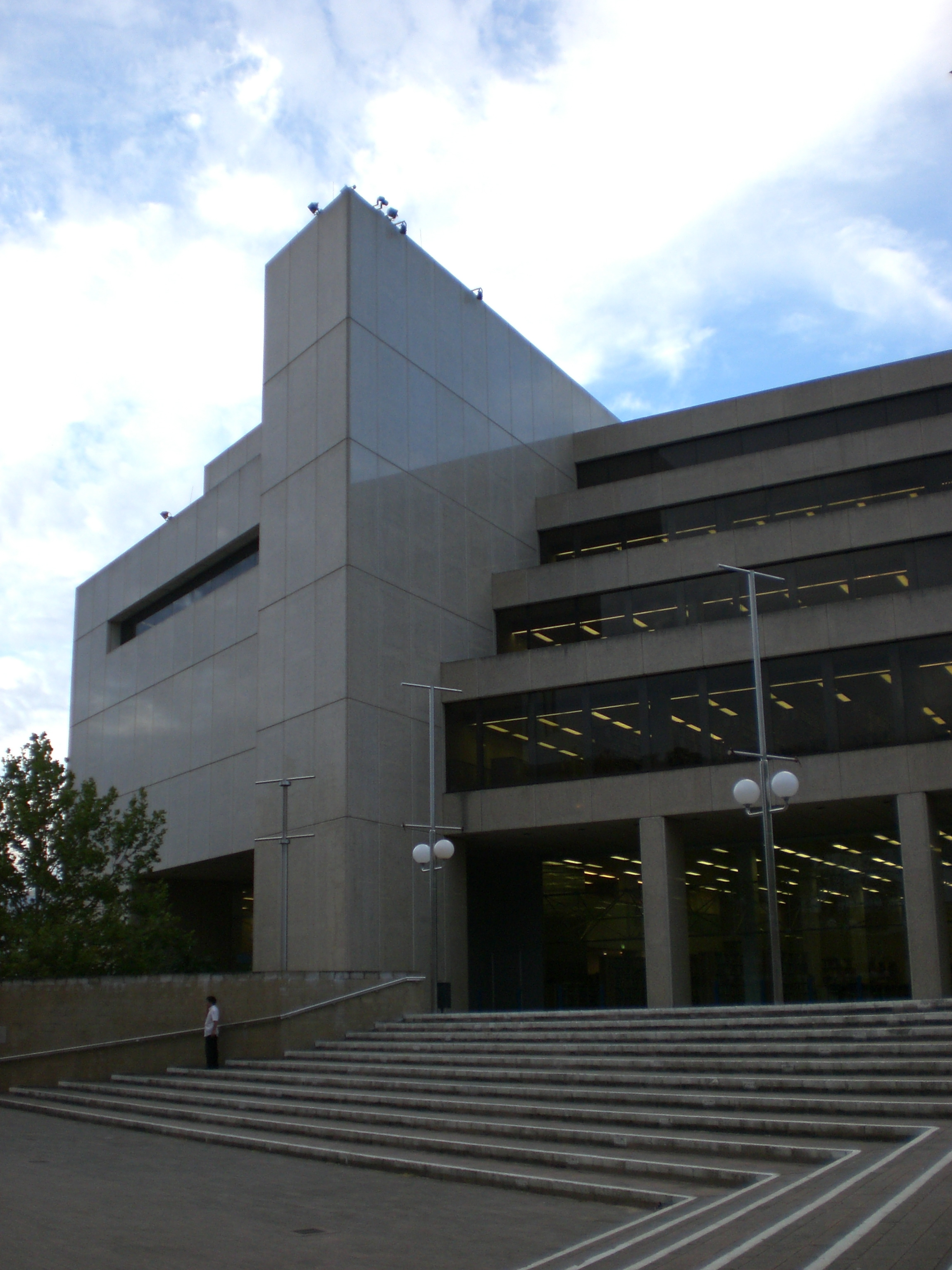 An image from a compact camera of the Alexander Library Building in the James Street cultural centre of Perth, Western Australia. An indication of the unusual scale of the steps is shown by the figure descending these at lower left. The photo was taken toward sunset, but away from it.